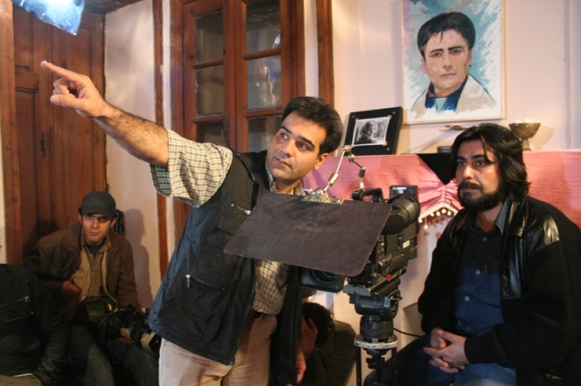 Behind the Scenes series, empty frames Photo: Sara ardebili